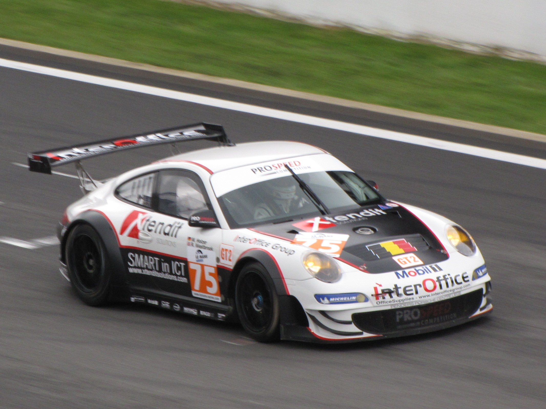 Marco Holzer driving a Porsche 997 GT3 RSR at training of 1000 km of Spa 2010.